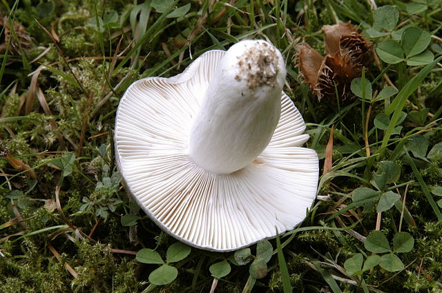 Russula spec. from Commanster, Belgium. The determination of the species shown in this picture has been verified.